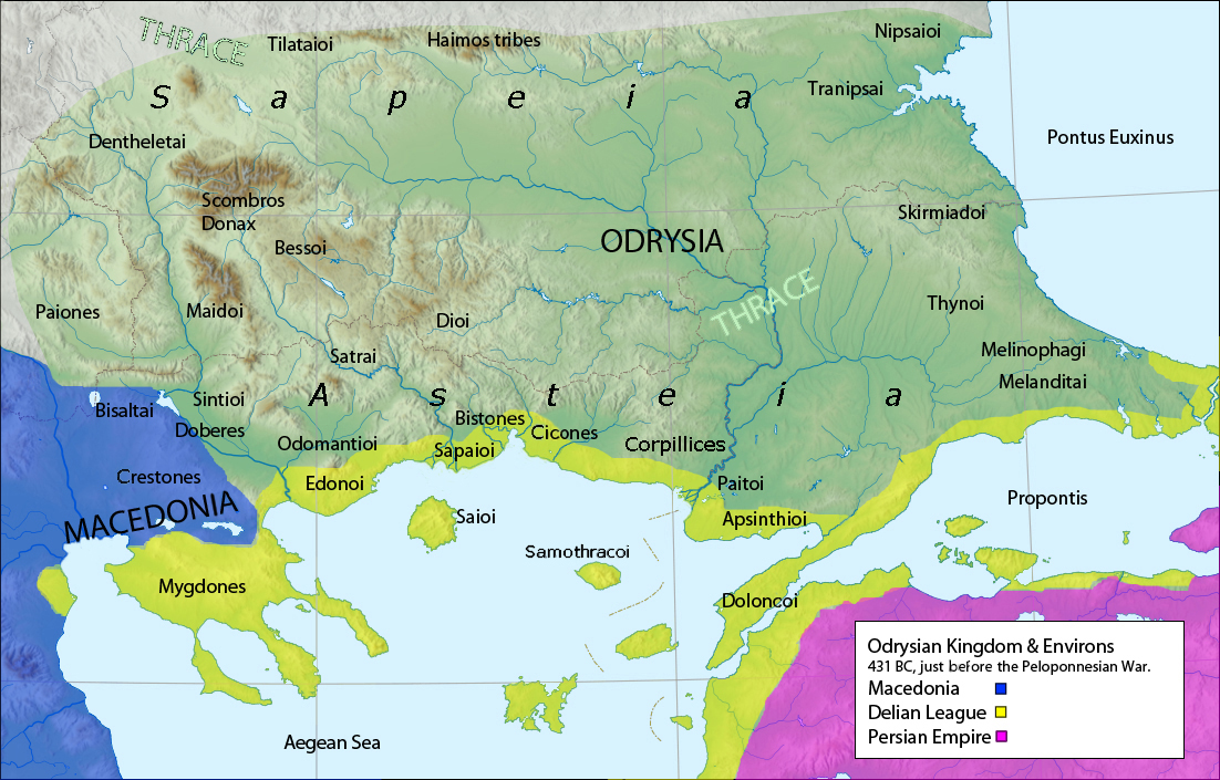 Map of the Odrysian kingdom & Environs,431 BC,The location of the Thracian tribes are approximate (see page 108 Fig. 4.2 from the The Odrysian Kingdom of Thrace cited below) Own work,data from The Odrysian Kingdom of Thrace: Orpheus Unmasked (Oxford Monographs on Classical Archaeology) by Z. H. Archibald,1998,ISBN-10-0198150474 A history of the classical Greek world: 478-323 BC By Peter John Rhodes,ISBN 1405192860 (2006) See also: File:Map_athenian_empire_431_BC-fr.svg Blank map Blank map from Image